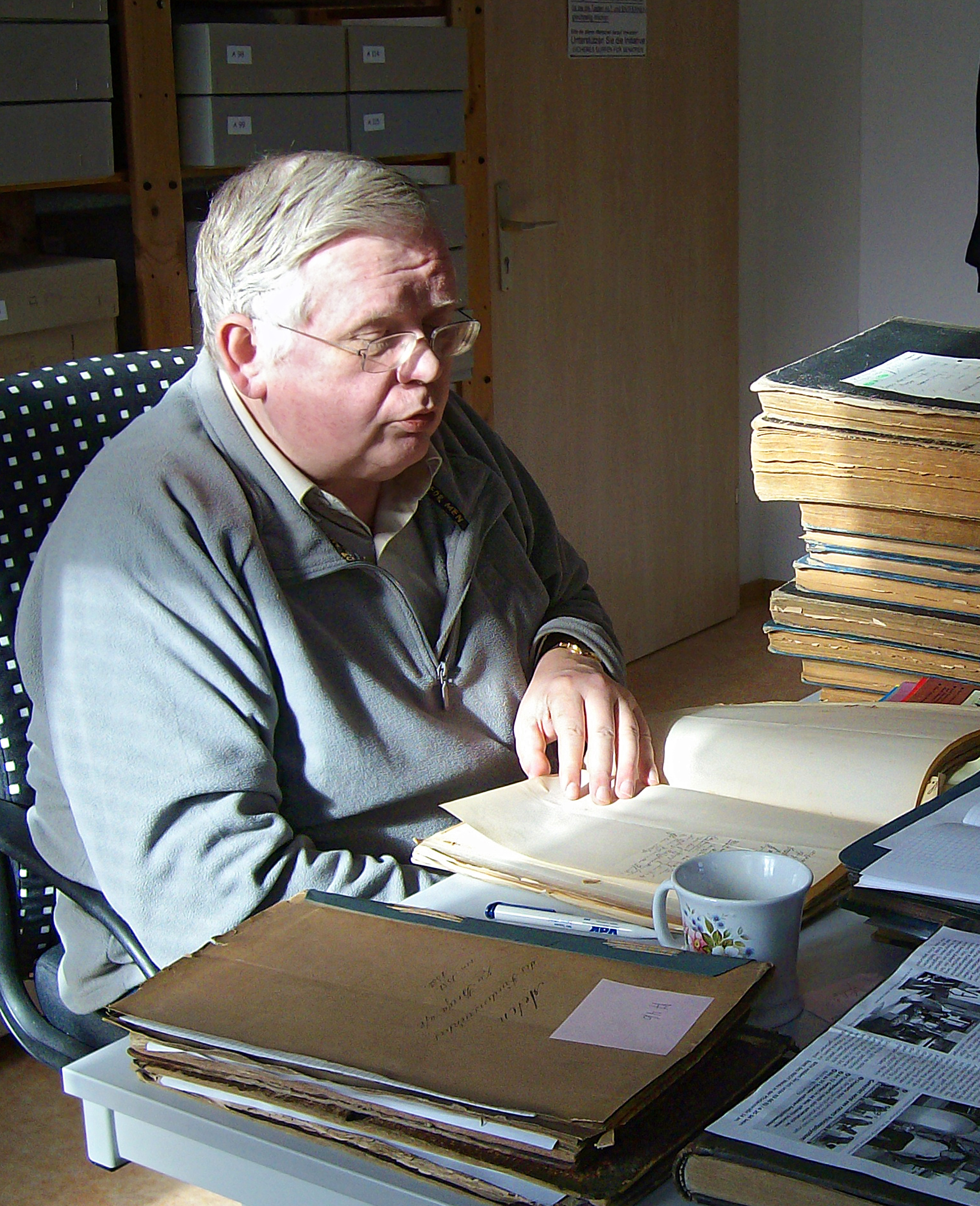 Frank Reinhold